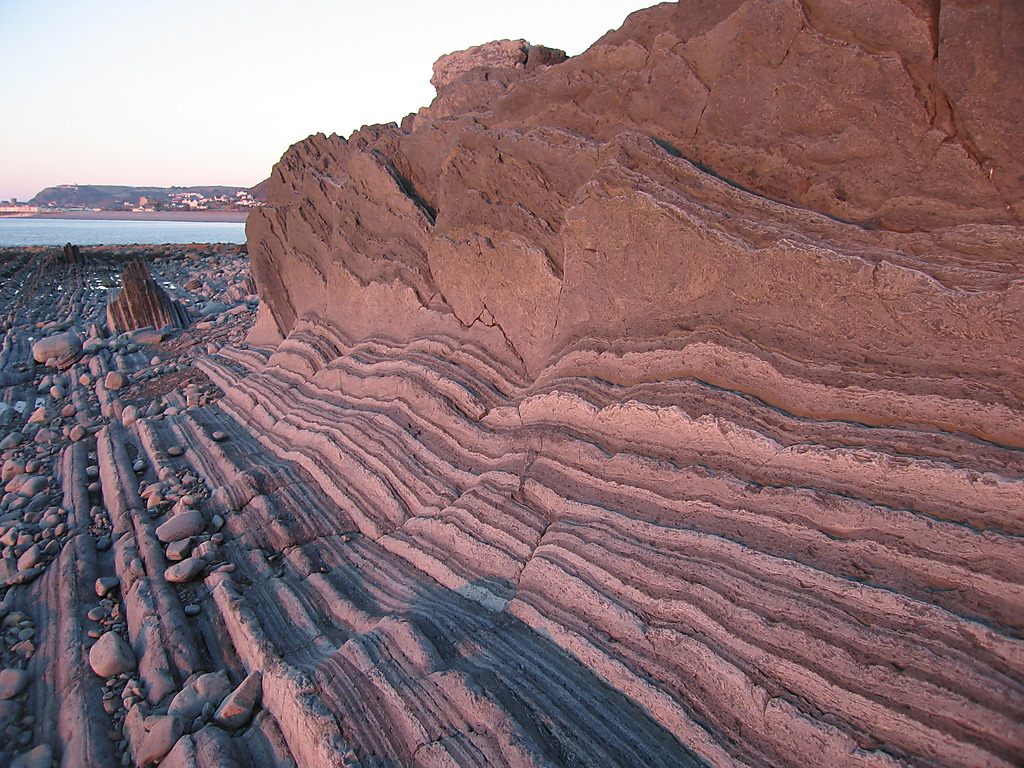 Wave-cut platform below Allt Wen So far, waves have worked their way into the folded strata up to this point. The rest of the rock on the right will be eroded away over the next few million years - or perhaps sooner if seawater levels rise as predicted. The ripple pattern in the wave-cut section shows that the light-grey strata are a less brittle than the darker ones, which tend to erode deeper. All of the rock is in fact grey - the reddish tinge is due to the setting sun. Allt Wen, the northern end of the coastal cliff south of Aberystwyth, is a remarkable geological site. A number of micro-folds only a few metres across with nearly parallel vertical limbs have been exposed on a wave-cut platform at the base of the cliff. The exact sequence of events that have taken place here is still debated, but it is thought that during the Caledonian orogeny 400Ma ago, freshly deposited layers of sediment became pressurised and folded before they were fully lithified and thus more deformable. There are also quartz veins parallel with the bedding in some places. It is thought that they were pressed into the fresh sediment before the folding took place. For more details, see the Geological Conservation Review's site report . Turbidites of early Silurian age.